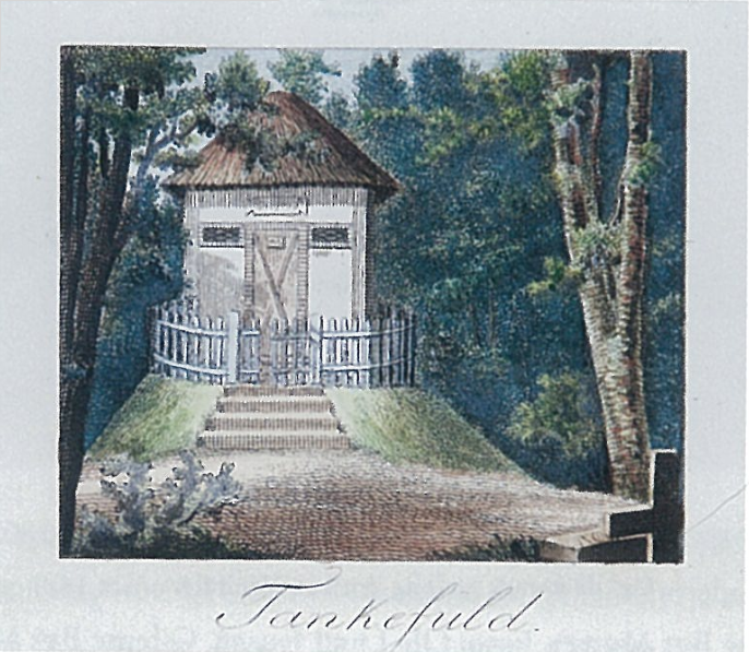 Engraving by Johann Friderich Clemens, drawing by Johan Henrik Hanck - Johan Bülow created between 1793 and 1828 a romantic garden at Sanderumgaard, Odense, Denmark